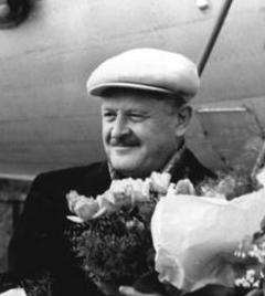 Picture cropped by File:Bundesarchiv Bild 183-14809-0004, Berlin, Schriftsteller-Besuch.jpg Berlin, Schriftsteller-Besuch Photographer Sturm, HorstTitle Berlin, Schriftsteller-Besuch Original caption Zentralbild-Sturm 21.5.52 Sowjetische Schriftsteller in Berlin. Auf dem Flugplatz Schönefeld trafen am 21.5.1952 weitere Gäste zur Teilnahme am 3. Deutschen Schriftstellerkongreß ein. UBz: V.l.n.r.: Stepan Stschipatschew, Nazim Hikmet und Prof. Mjasnikow.Depicted people Hikmet, Nazim: Dichter, Türkei Stschipatschew, Stepan P.: Schriftsteller, Lyriker, Stalinpreisträger, SowjetunionDepicted place BerlinDate 21 May 1952date QS:P571,+1952-05-21T00:00:00Z/11Collection German Federal Archives Native nameDas BundesarchivParent institutionFederal Government Commissioner for Culture and Media LocationKoblenz (headquarters)Coordinates50° 20′ 32.71″ N, 7° 34′ 21.22″ E Established1946 Web page control : Q685753 VIAF: 137346469 ISNI: 0000 0004 0555 2728 LCCN: n92025526 NLA: 36455393 Open Library: OL55798A WorldCat institution QS:P195,Q685753Current location Allgemeiner Deutscher Nachrichtendienst - Zentralbild (Bild 183)Accession number Bild 183-14809-0004 Source This image was provided to Wikimedia Commons by the German Federal Archive (Deutsches Bundesarchiv) as part of a cooperation project. The German Federal Archive guarantees an authentic representation only using the originals (negative and/or positive), resp. the digitalization of the originals as provided by the Digital Image Archive. Zentralbild-Sturm 21.5.52 Sowjetische Schriftsteller in Berlin. Auf dem Flugplatz Schönefeld trafen am 21.5.1952 weitere Gäste zur Teilnahme am 3. Deutschen Schriftstellerkongreß ein. UBz: V.l.n.r.: Stepan Stschipatschew, Nazim Hikmet und Prof. Mjasnikow.